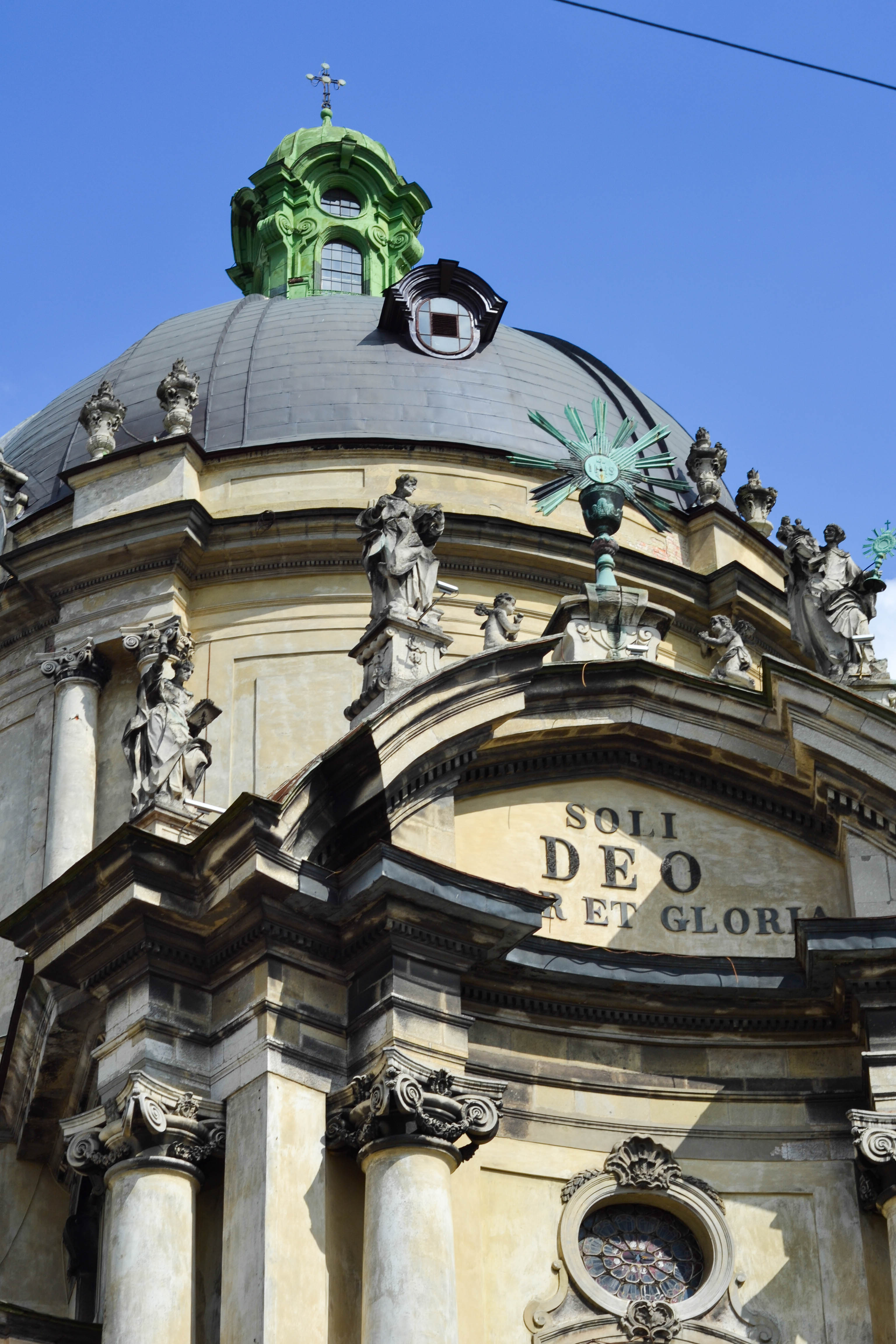 The facade of the Church of the Holy Eucharist Lviv